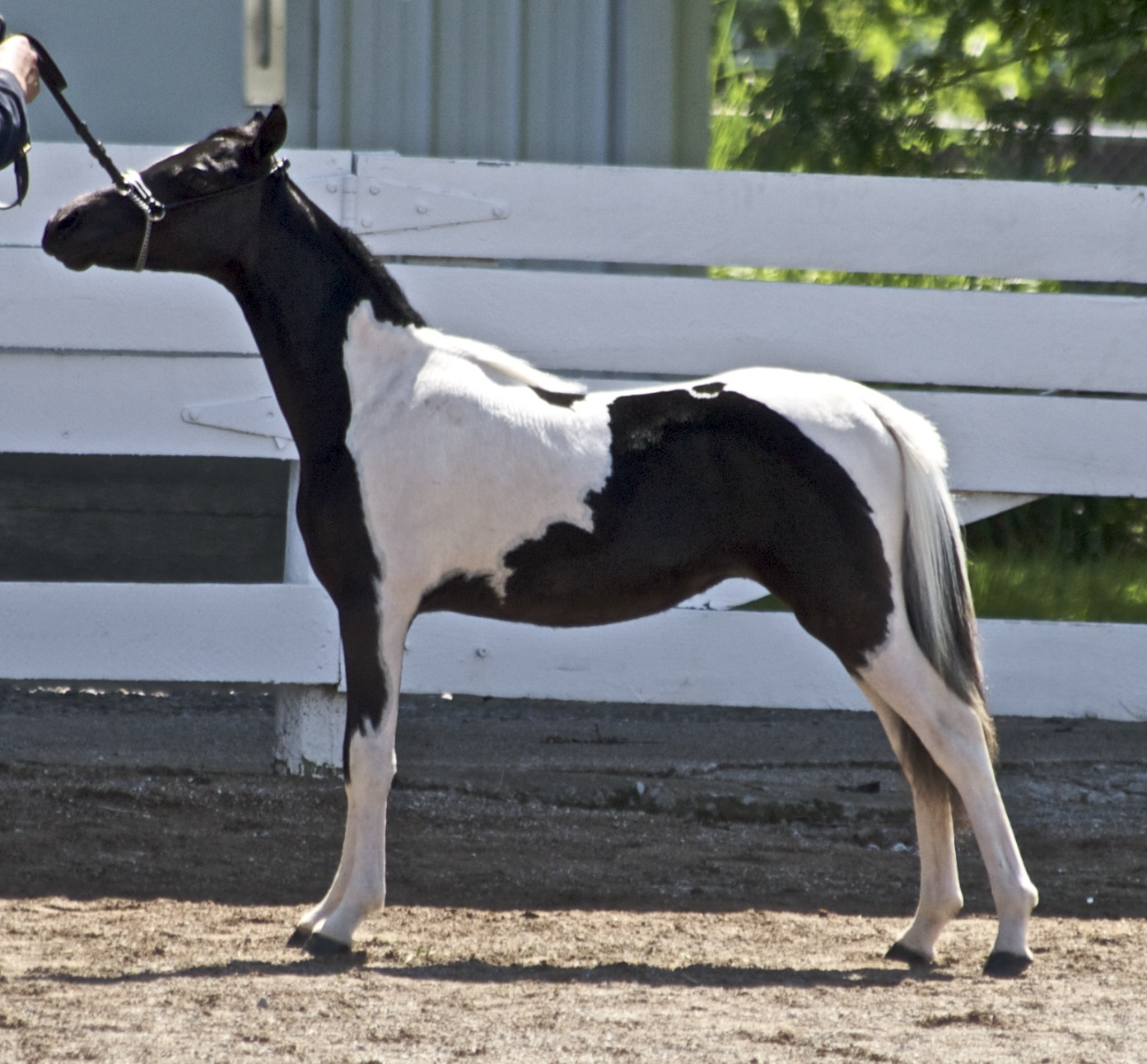 f/8 1/500th ISO 400 - Back Lit; Black tobiano horse-type miniature horse